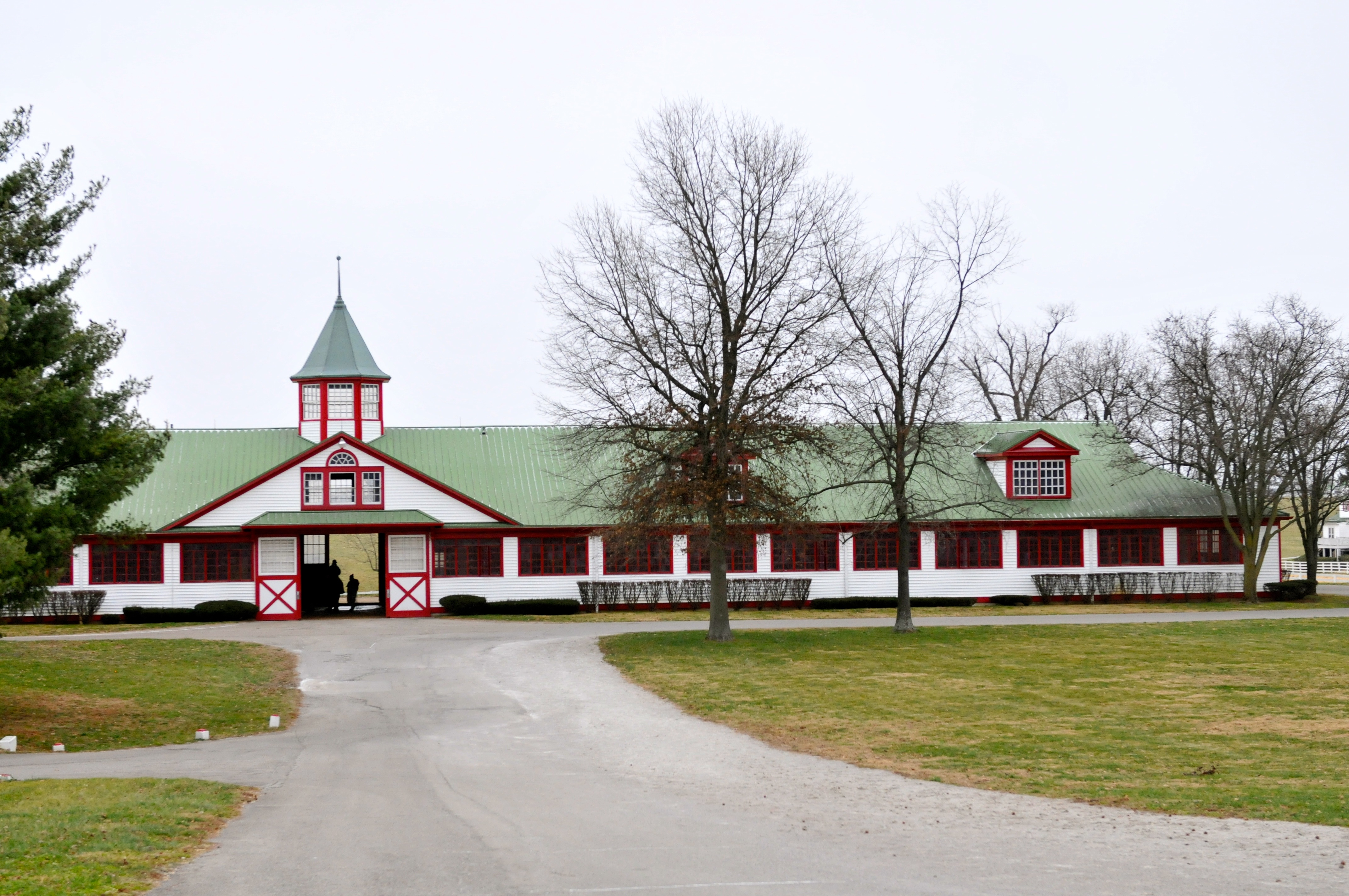 View of stables at Calumet Farm, Lexington, KY